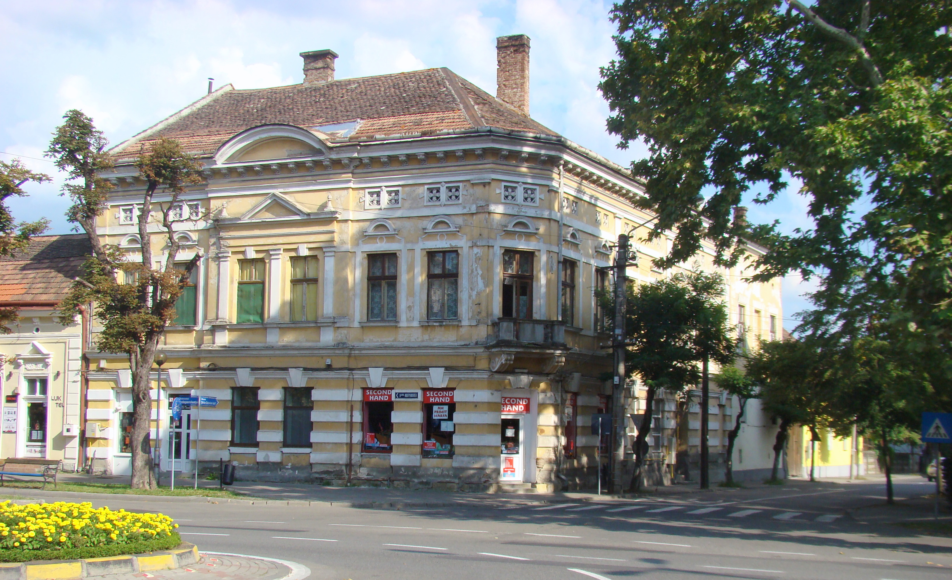 House, historic monument, in Bistrița, Bd. Independenței 35